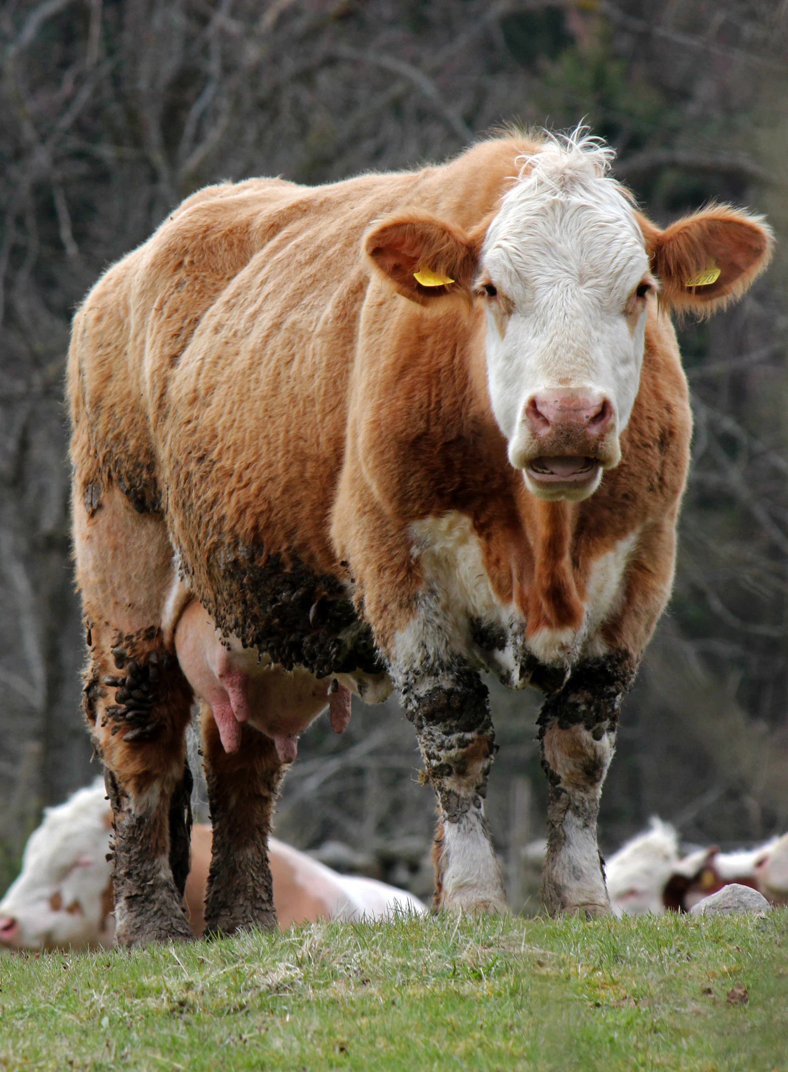 A cow in Onsala, Halland, Sweden.